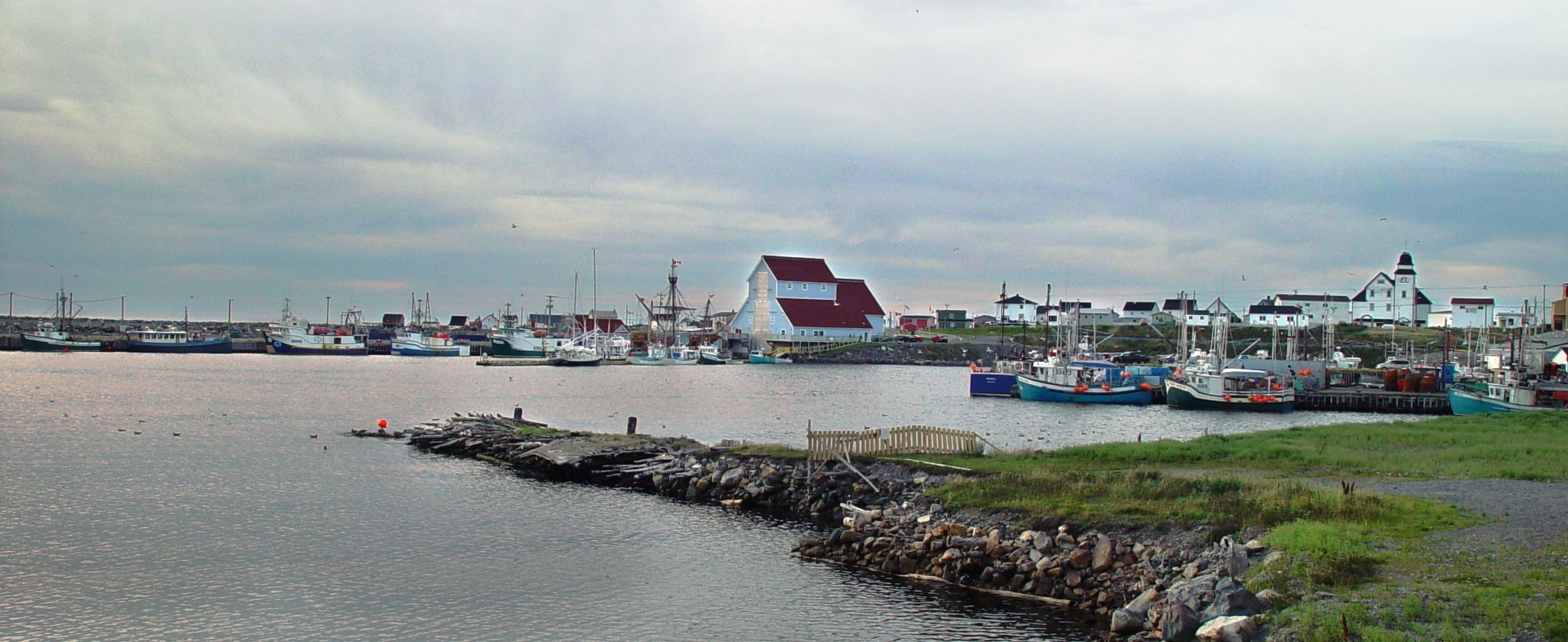 A view of Bonavista harbour looking north in Newfoundland and Labrador, Canada.